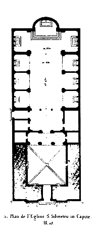 Plan of S. Sylvester in Capite, Rome